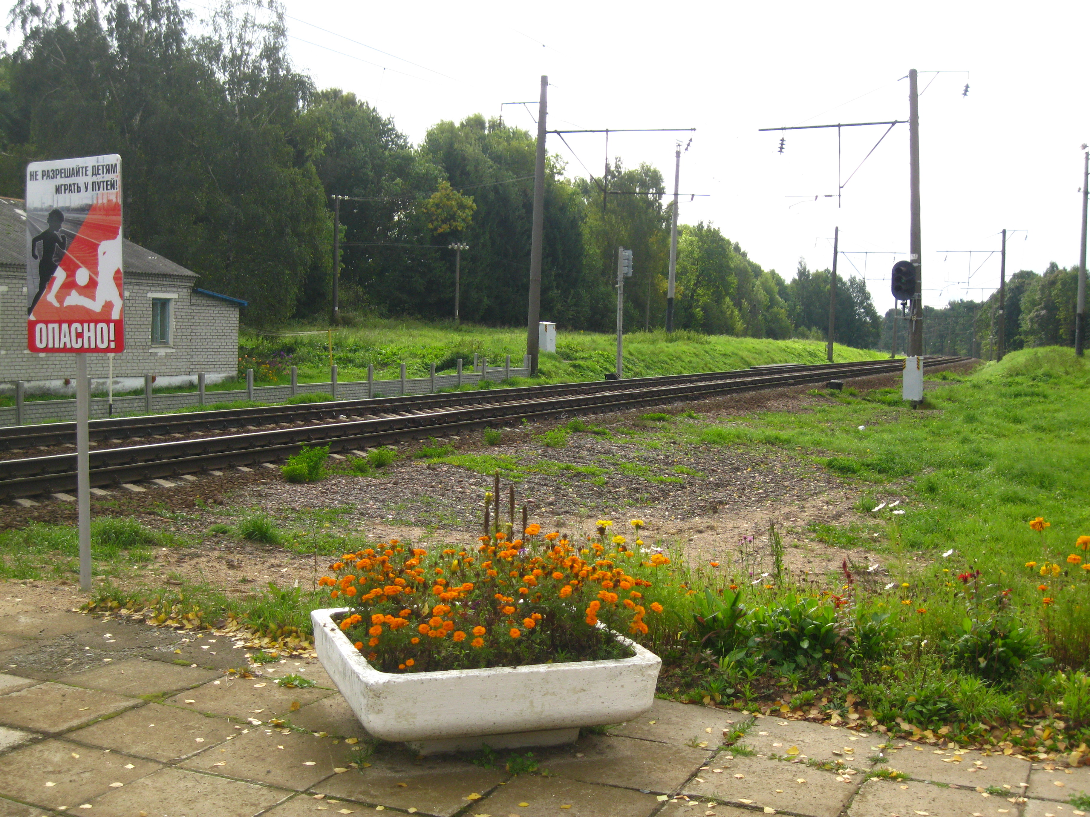 Railway Station Anusina, Belarus